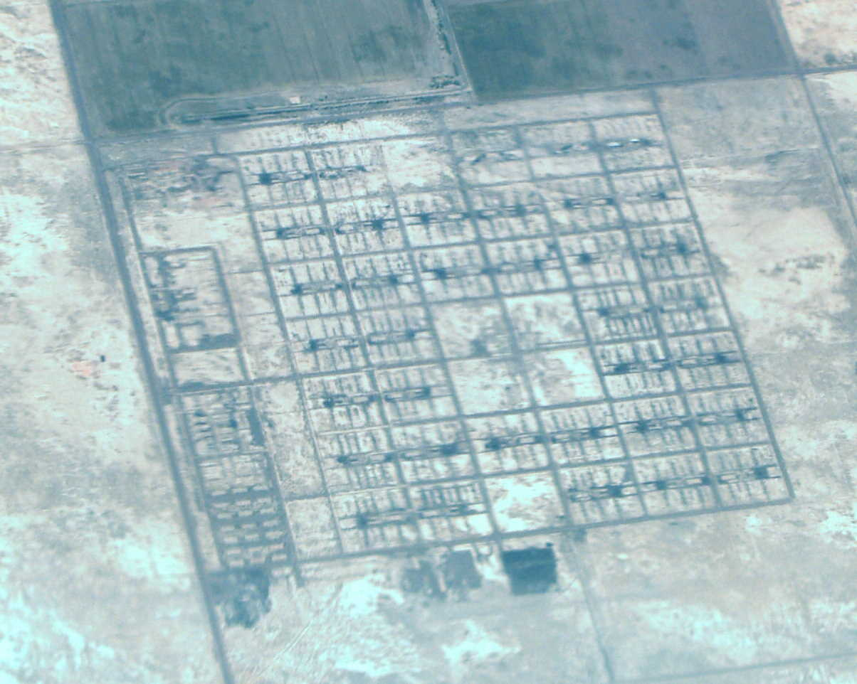 This is an aerial view of the remains of the Topaz Internment Camp from 20,000 feet.